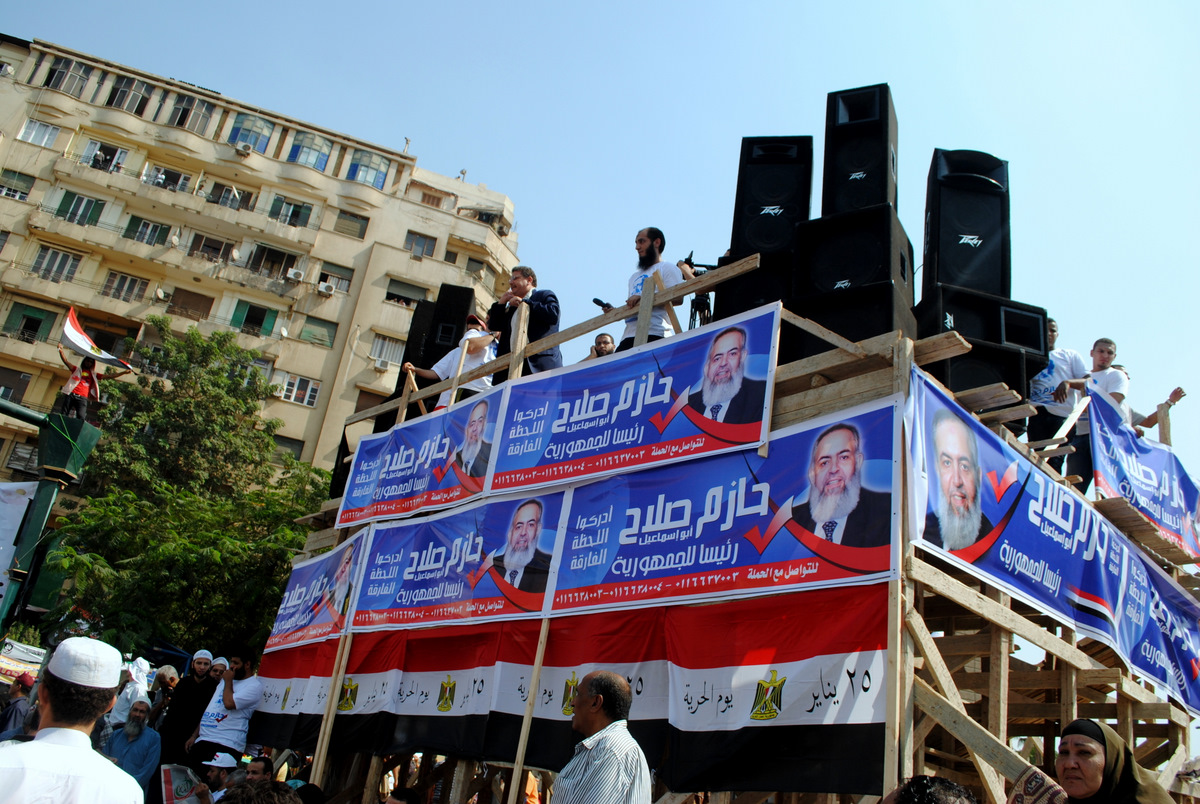 Stage of possible presidential candidate Hazem Salah Abu Ismail in Tahrir Square